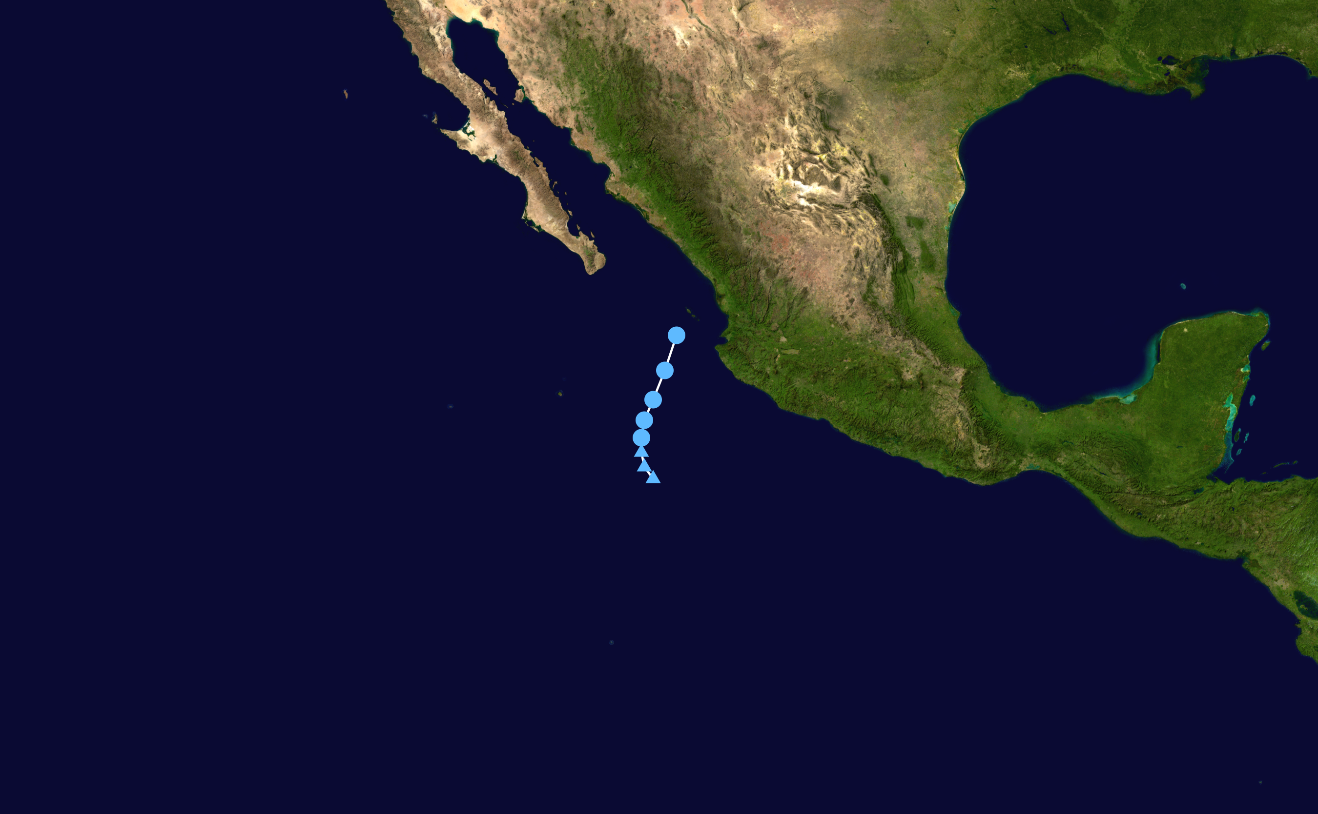 Track map of Tropical Depression One-E of the 2009 Pacific hurricane season. The points show the location of the storm at 6-hour intervals. The colour represents the storm's maximum sustained wind speeds as classified in the Saffir–Simpson scale (see below), and the shape of the data points represent the nature of the storm, according to the legend below. Saffir–Simpson scale Tropical depression≤38 mph≤62 km/h Category 3111–129 mph178–208 km/h Tropical storm39–73 mph63–118 km/h Category 4130–156 mph209–251 km/h Category 174–95 mph119–153 km/h Category 5≥157 mph≥252 km/h Category 296–110 mph154–177 km/h Unknown Storm type Tropical cyclone Subtropical cyclone Extratropical cyclone / Remnant low / Tropical disturbance / Monsoon depression